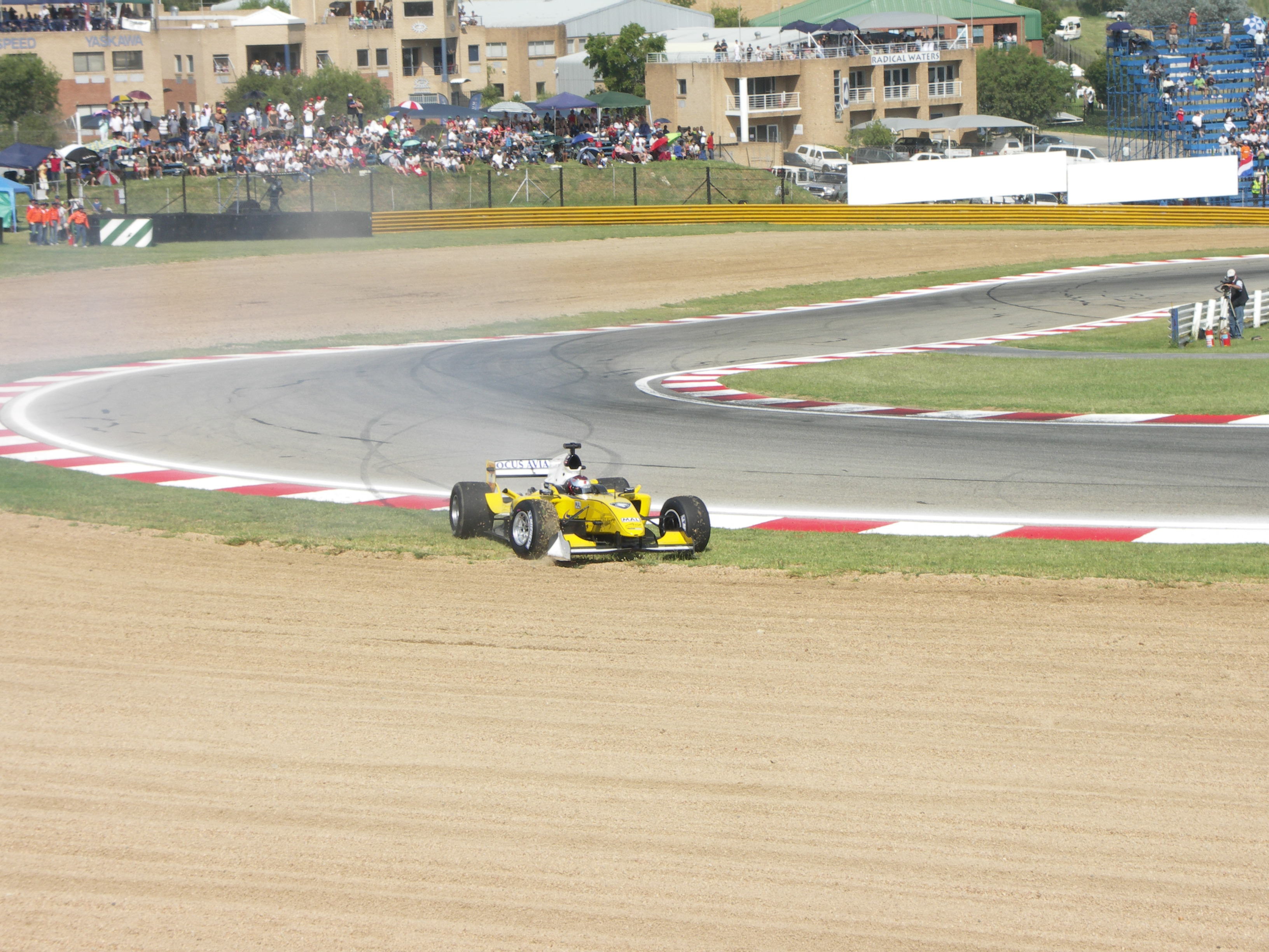 A1 Team Malaysia leaving the track at Kyalami, Gauteng, South Africa during the 2008-09 A1 Grand Prix season